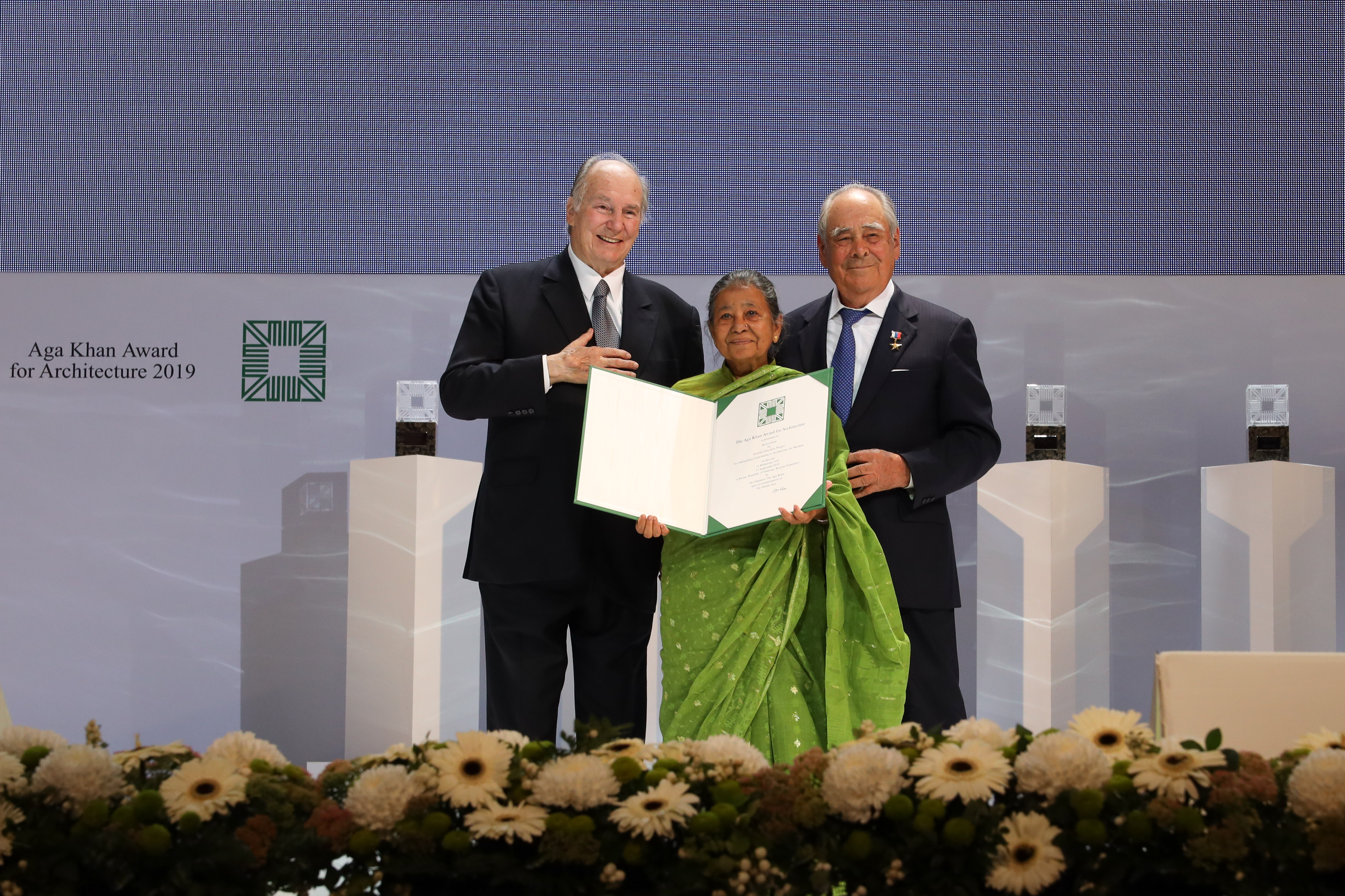 Razia Alam, Chairperson, Maleka Welfare Trust, Bangladesh is presented an Aga Khan Award for Architecture 2019 certificate for the Arcadia Education Project, South Kanarchor, Bangladesh, by His Highness the Aga Khan and Mintimer Shaimiev, State Counselor of the Republic of Tatarstan.